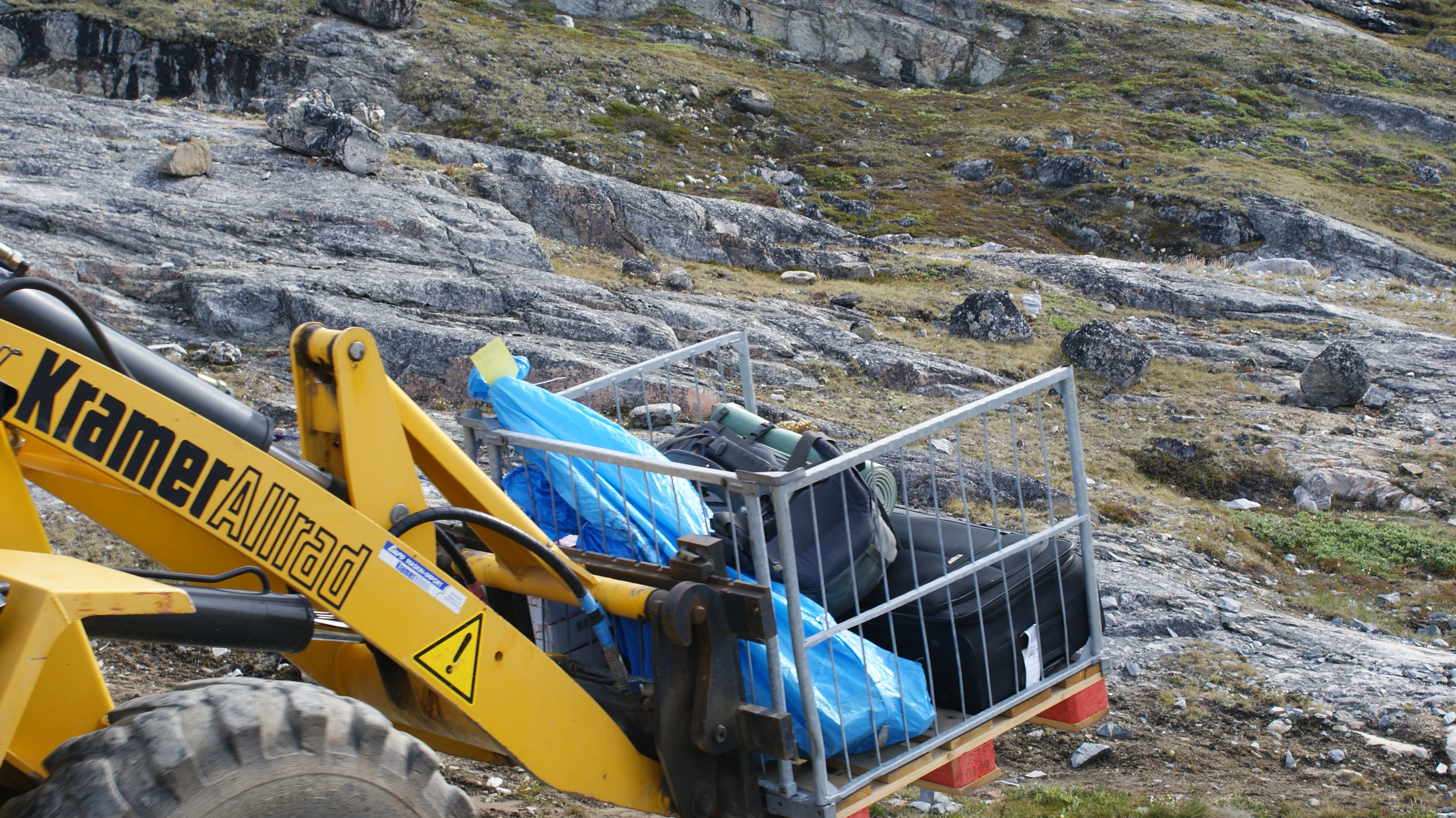 Ukkusissat Heliport, Greenland. Baggage delivery from the helipad to the settlement (deposited at Pilersuisoq)